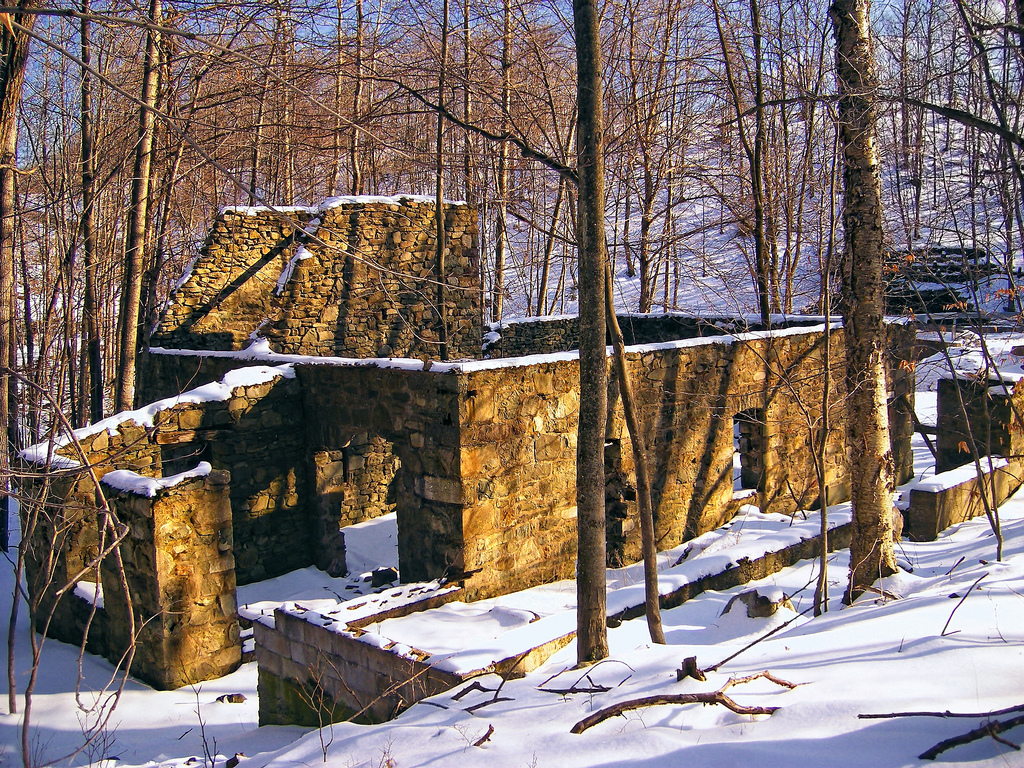 Discovered while hiking off-trail in the woods along Devil's Hole Creek, Paradise Township, Monroe County. Just beyond the structure was a road leading to a modern housing development.